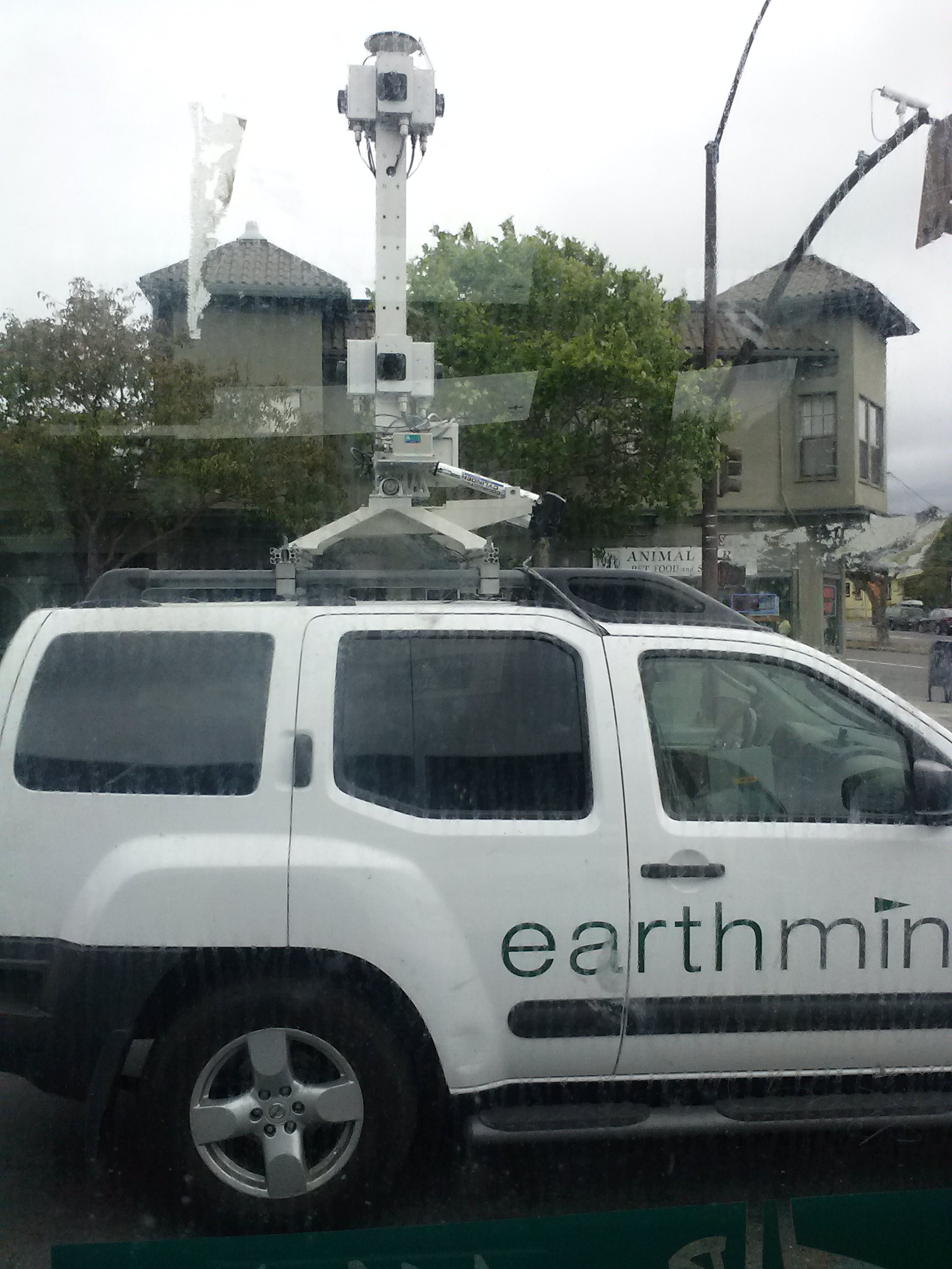 earthmine suv, from bus, at San Pablo Avenue and Cedar Street, Berkeley CA